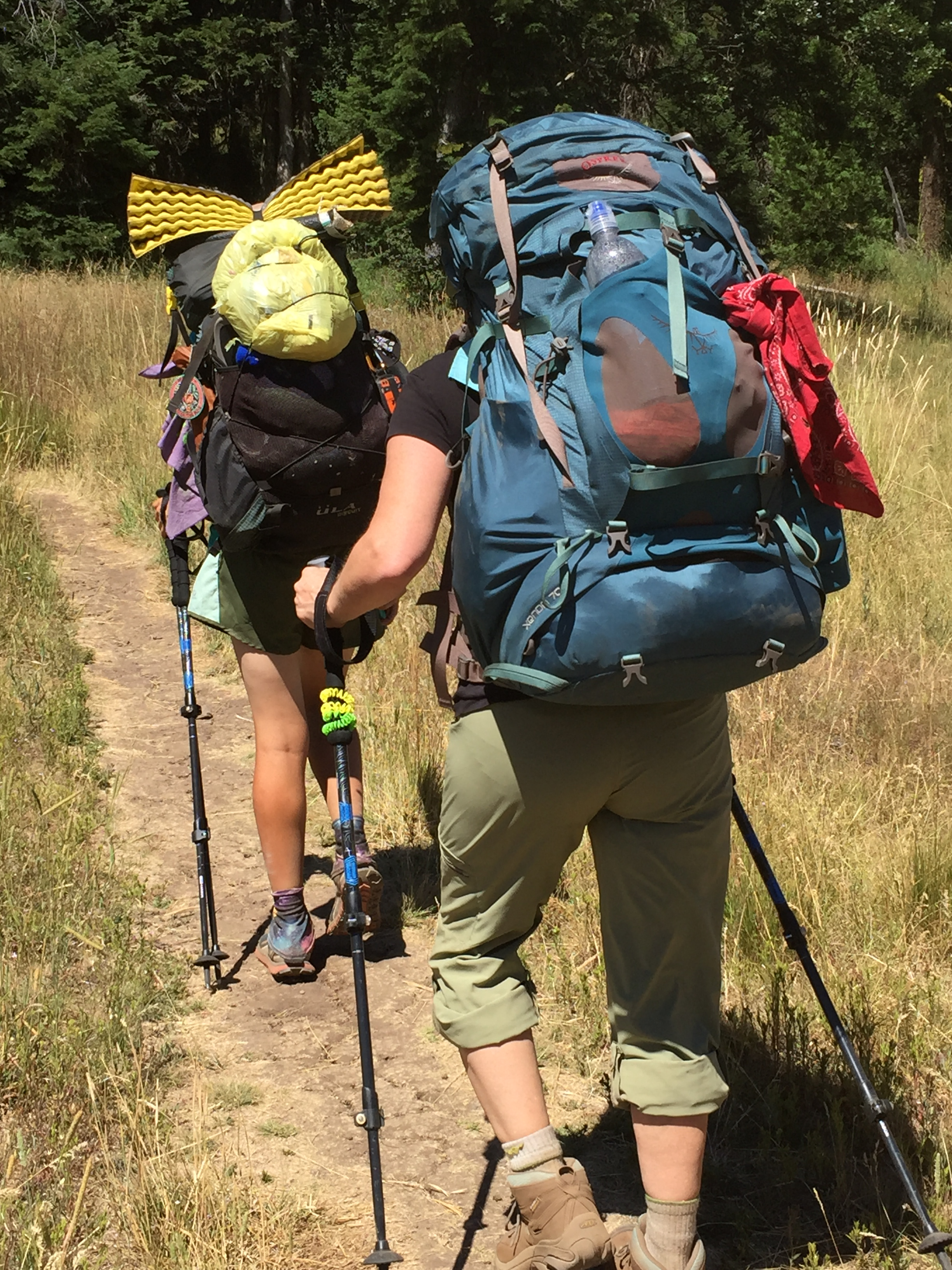 Hobart Bluff is part if the spectacular Cascade-Siskiyou National Monument. Located at the crossroads of the Cascade, Klamath, and Siskiyou mountain ranges, scientists have long recognized the outstanding ecological values of the Cascade-Siskiyou National Monument (CSNM). The convergence of three geologically distinct mountain ranges resulted in an area with remarkable biological diversity and a tremendously varied landscape. Many archaeological and historical sites are also found throughout the CSNM, providing clues to Native American use of the area and tracing portions of the historic Oregon/California Trail. One of the easiest ways to experience this unique landscape include hiking the Pacific Crest National Scenic Trail which meanders some 19 miles through the Monument or reserving a campsite at the Monument's Hyatt Lake Recreation Area. The Pacific Crest Trail also traverses right alongside Hobart Bluff! The Monument consists of approximately 62,000 acres of BLM-administered land in rugged Southwestern Oregon. Privately owned land is often adjacent to public land in the CSNM. Please respect the rights of private property owners and stay on public land when visiting the Monument. To get to Hobart Bluff take I-5 Exit 14 to Greensprings Highway (66) to Soda Mountain Rd. - 15 miles. Turn right onto Soda Mountain Road (39- 3E-32.3), drive 3.8 miles to junction of power line, PCT, and Soda Mountain Rd. Trail goes north to Hobart Bluff. Trail length: 3 Miles (to top of bluff and back).